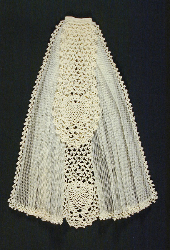 United States, Illinois, Lebanon, lace- late 19th century; constructed- early 20th century Costumes; Accessories Cotton machine net, cotton crochet lace Gift of Mrs. Frances Presley Wilson (30.40.35) Costume and Textiles